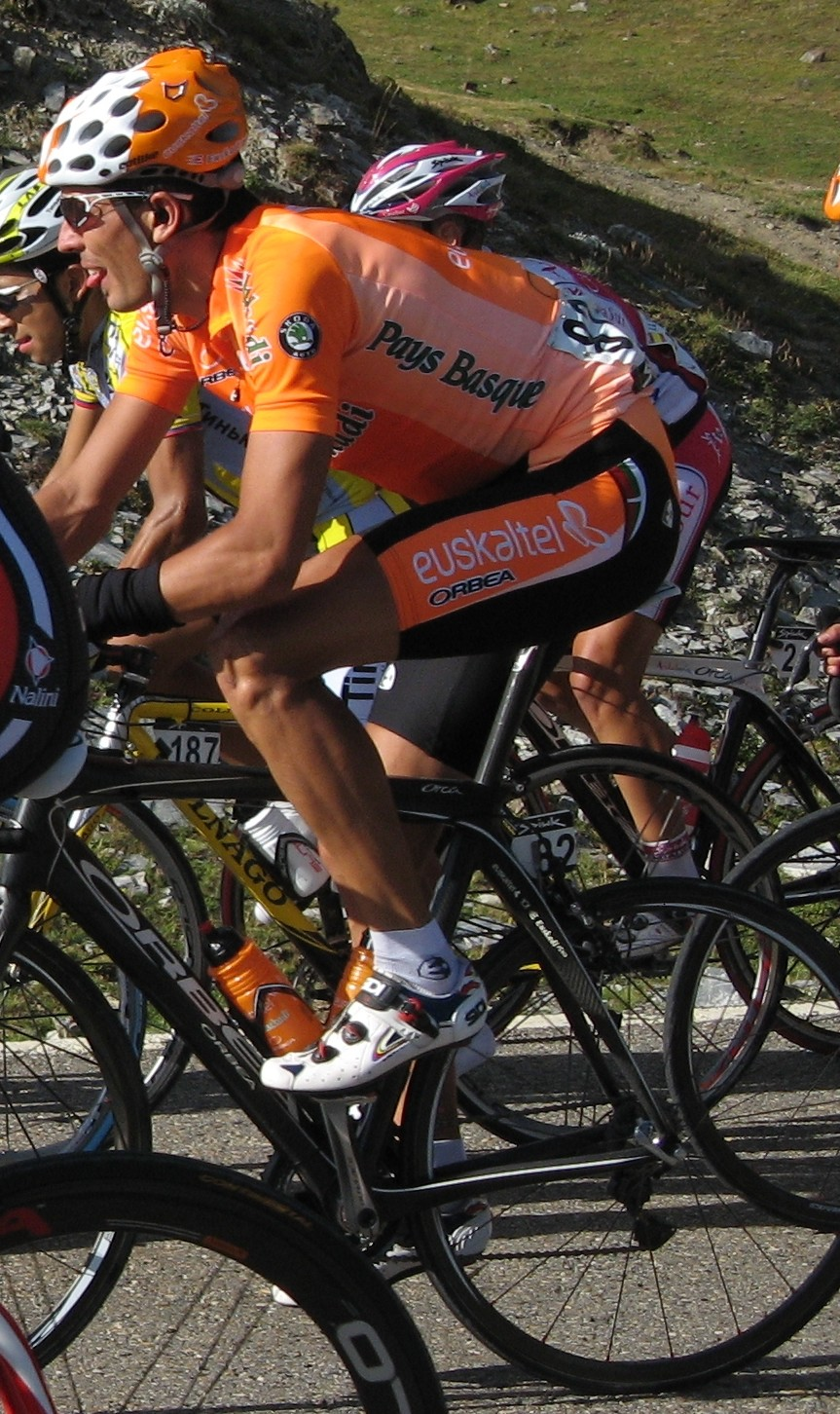 Mikel Astarloza, 2008 Vuelta a España, 8th stage, Port de la Bonaigua, Spain.